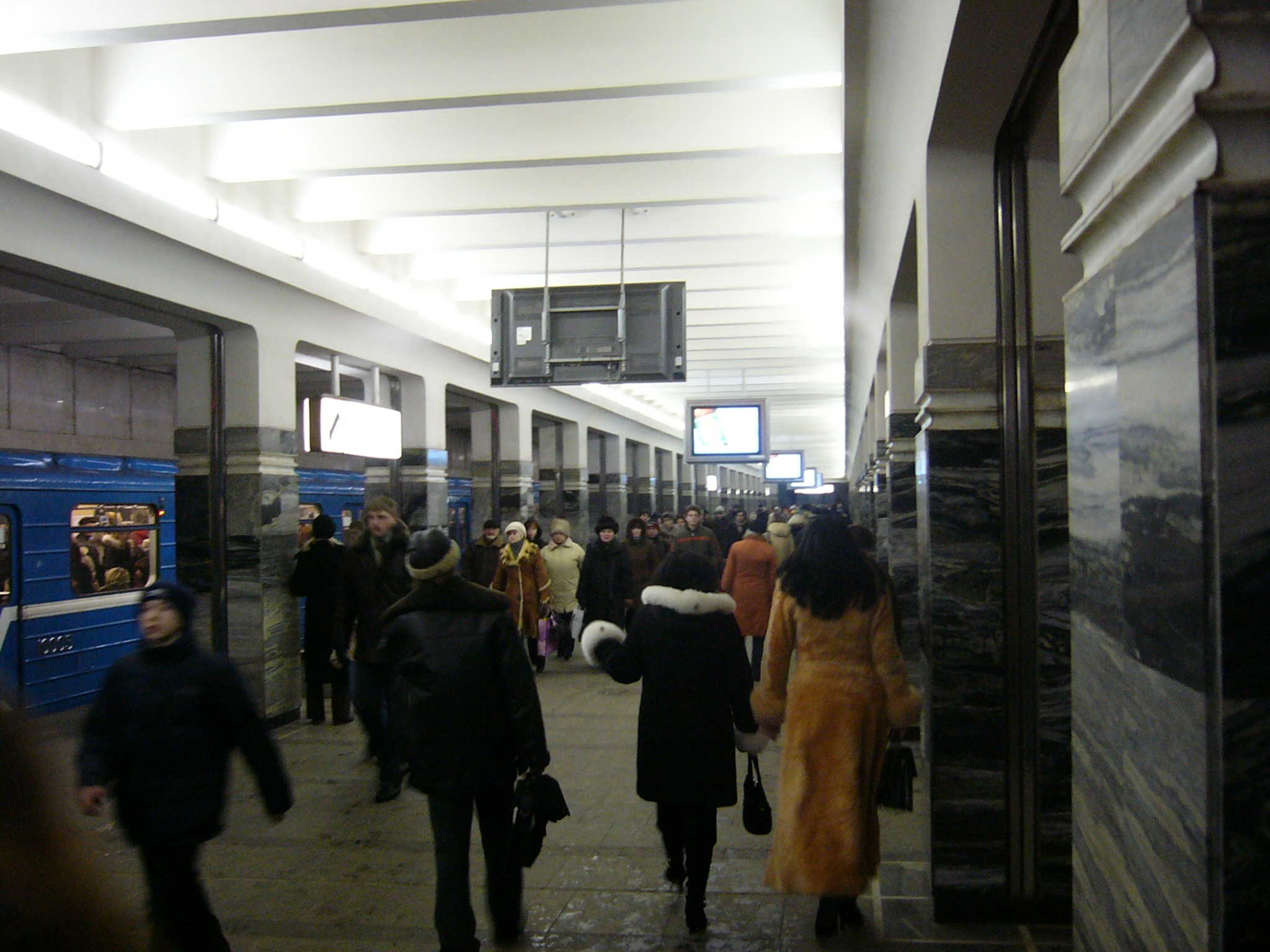 Metro station Academy of Sciences (Академия наук) Minsk Photo by Redline